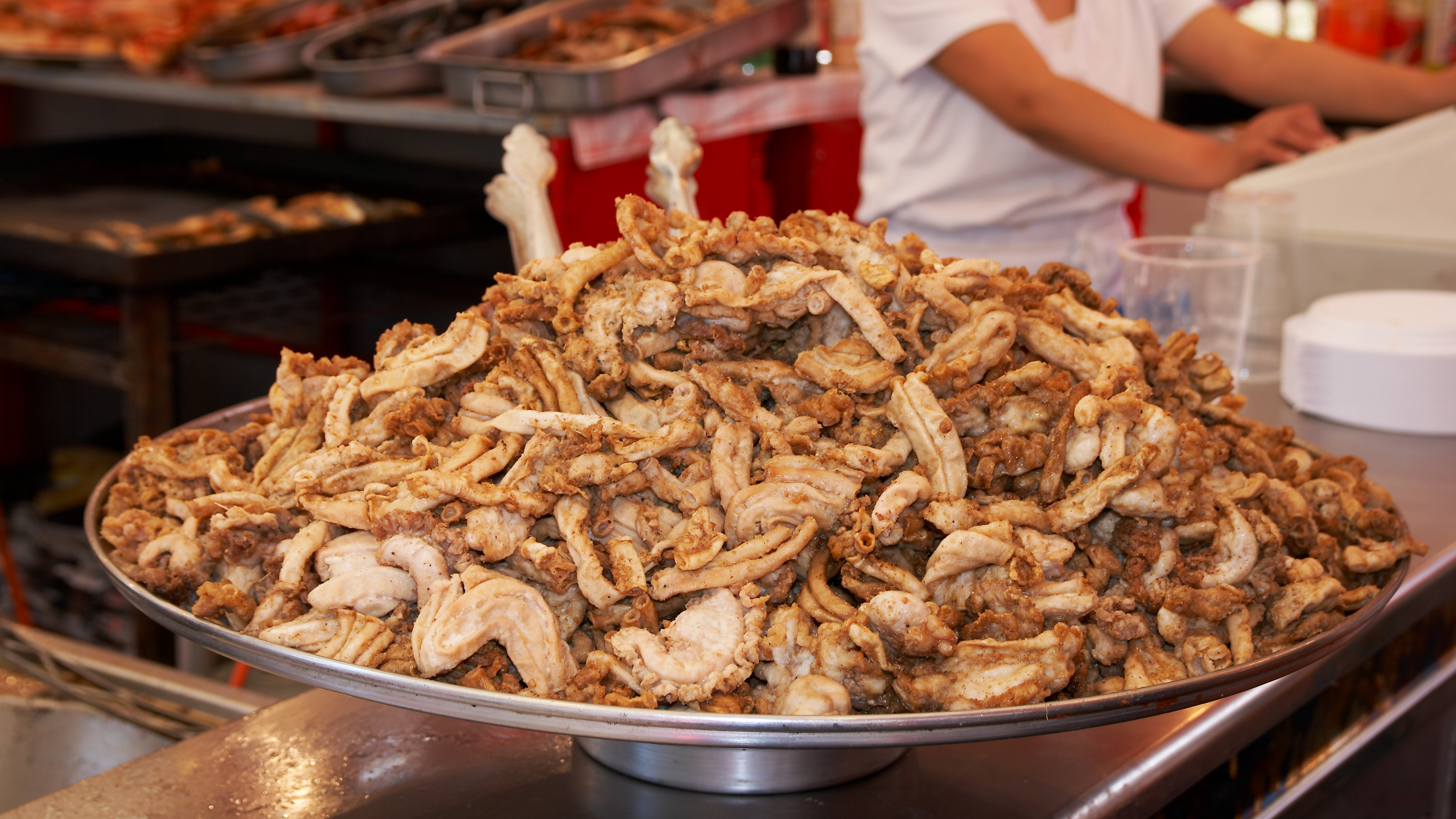 Gallinejas, a traditional Spanish dish consisting of baked sheeps intestines and organs